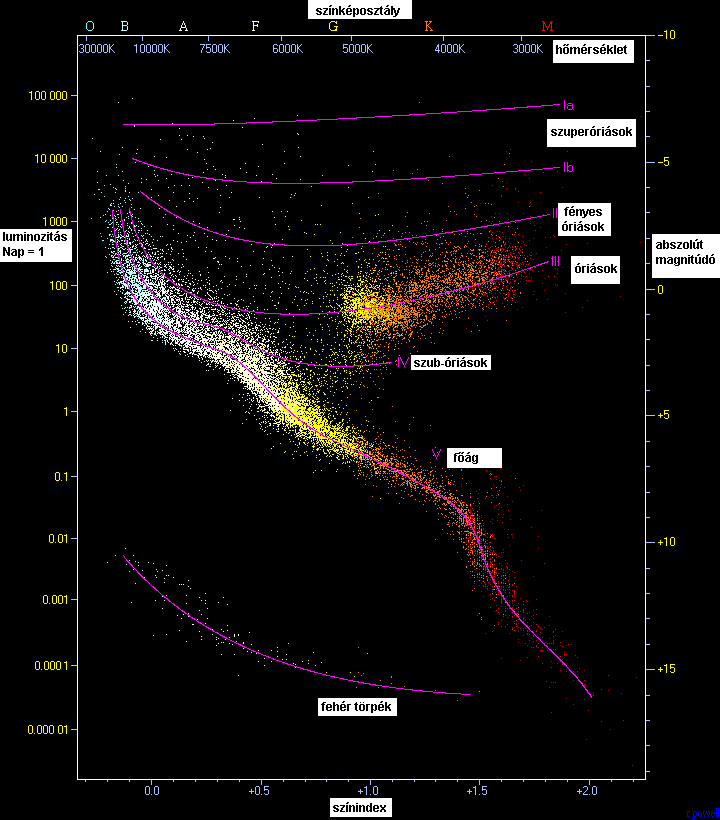 Hertzsprung-Russell diagram with Hungarian notation. A plot of luminosity (absolute magnitude) against the colour of the stars ranging from the high-temperature blue-white stars on the left side of the diagram to the low temperature red stars on the right side.